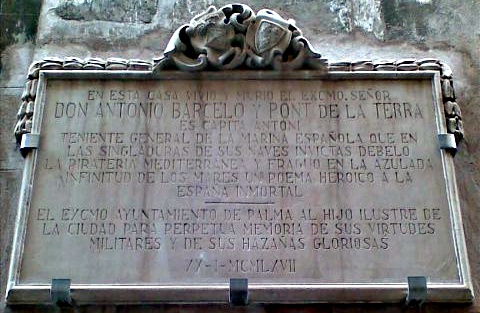 Commemorative plaque (January, 20 of 1967 ) of the Spanish ADMIRAL Don Antonio Barcelo y Pont de la Terra born 1716/1717 and died in 1797 at No. 12, "Carrer del Vi" (Wine street) in Palma de Mallorca's Puig de Sant Pere district, in the Mallorca Island of Spain.